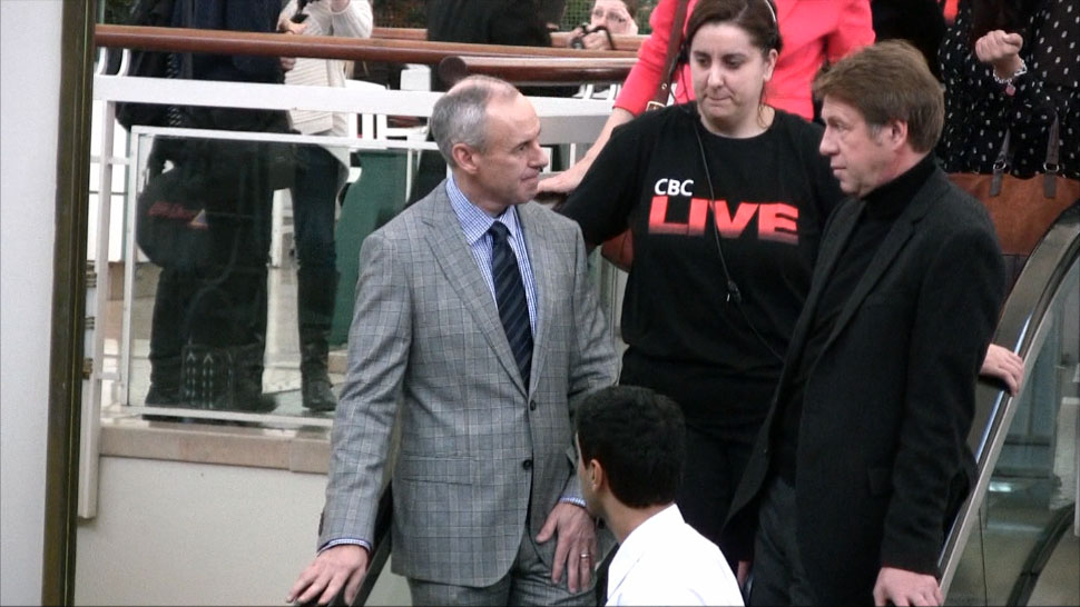 CBC Live event at Sherway Gardens.